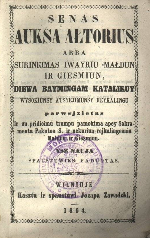 Popular Lithuanian prayer book "Auksa altorius" (Golden Altar) published in Latin alphabet just before the times of Lithuanian press ban.